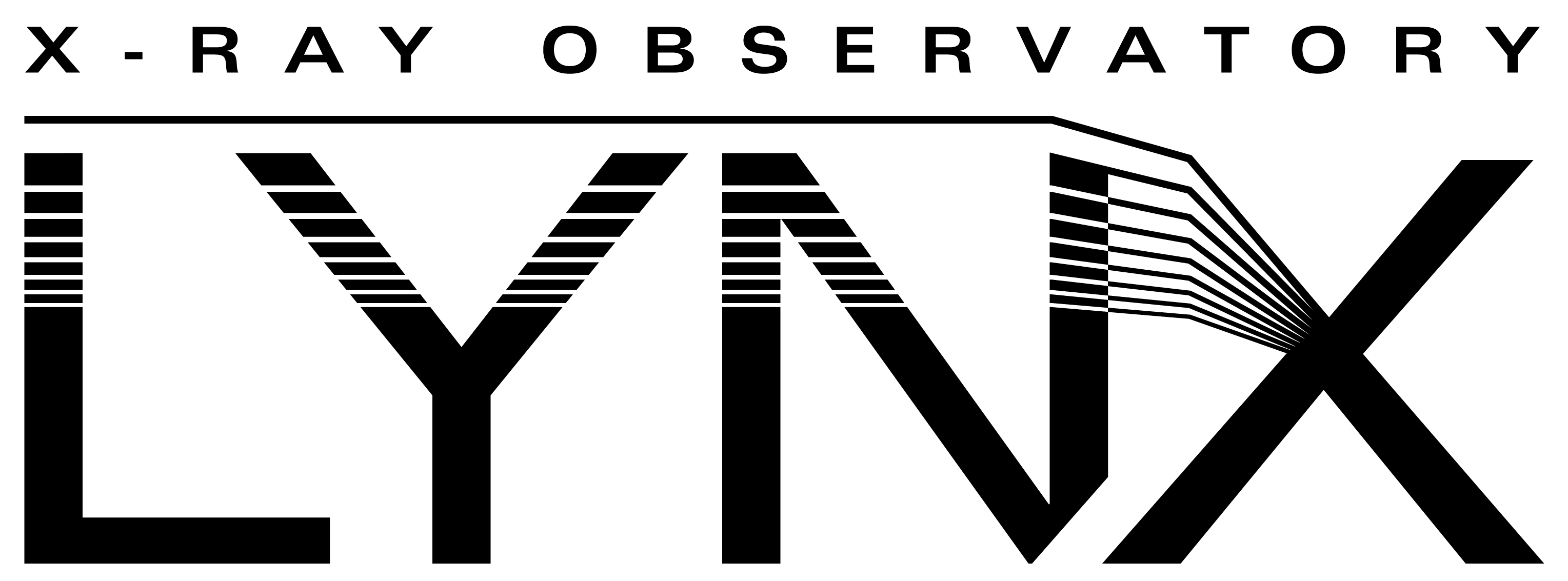 This is the wordmark for the Lynx X-ray Observatory NASA Large Mission Concept Study. It was designed by Tanya Borman-Voit for the Lynx Team.